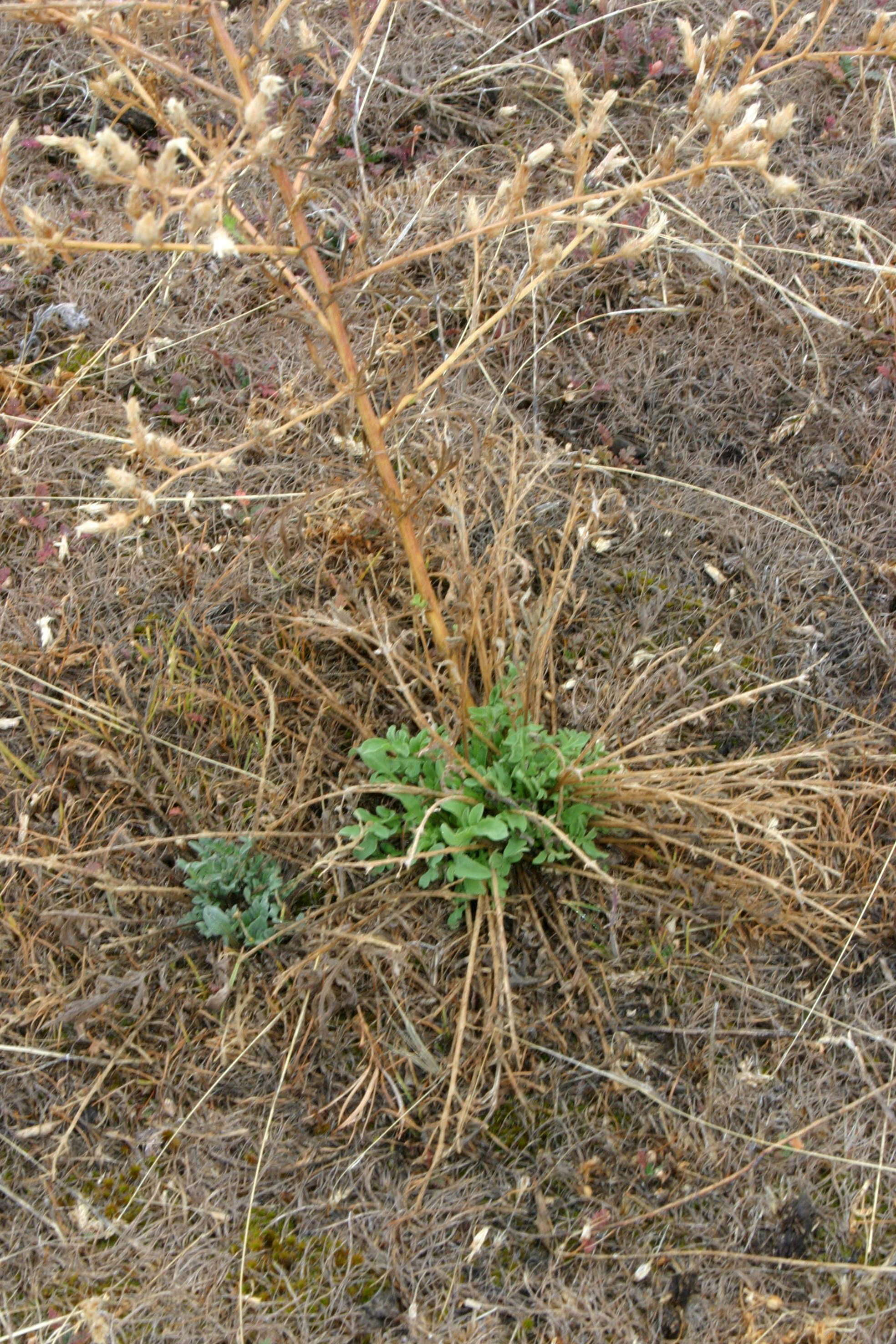 diffuse knapweed - Centaurea diffusa Lam. - Plant(s) - regrowth in fall after summer defoliation by Larinus minutus, which can happen after a good summer rain. - Oregon, United State